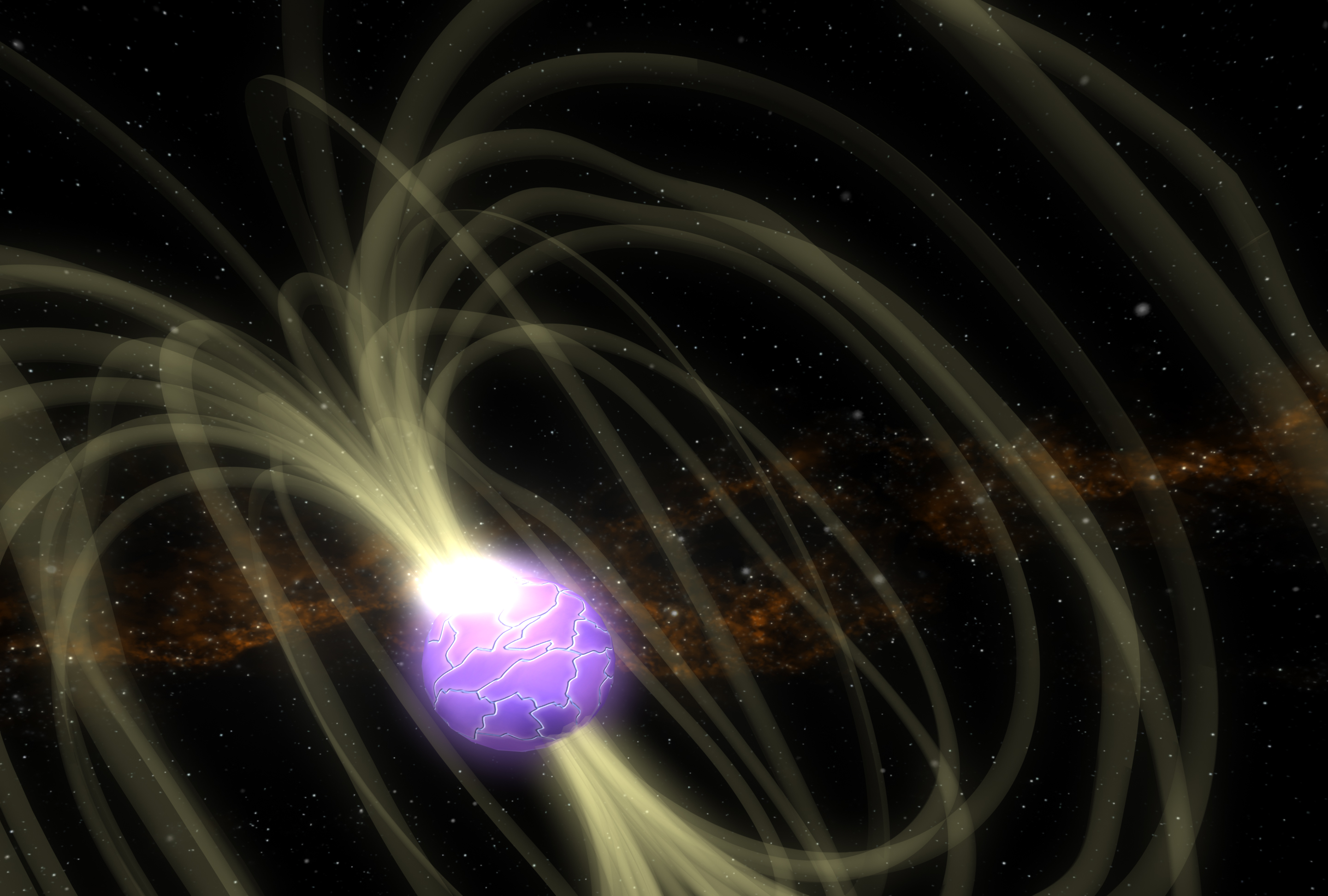 An artist conception of the SGR 1806-20 magnetar including magnetic field lines